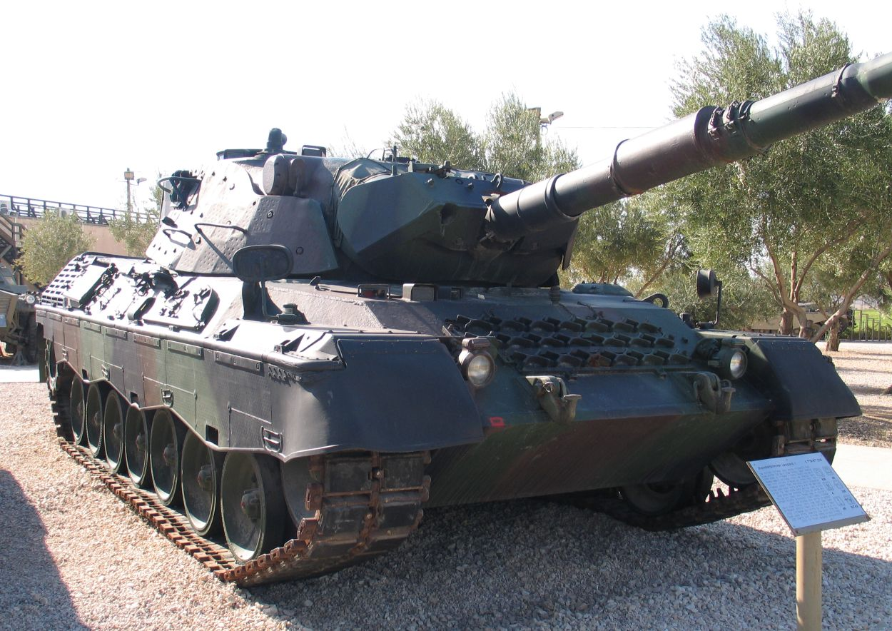 Leopard 1 MBT in Yad la-Shiryon Museum, Israel.